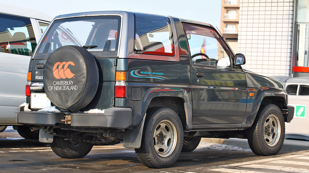 Daihatsu Rocky Marine Runner ( Japan spec F300S ).